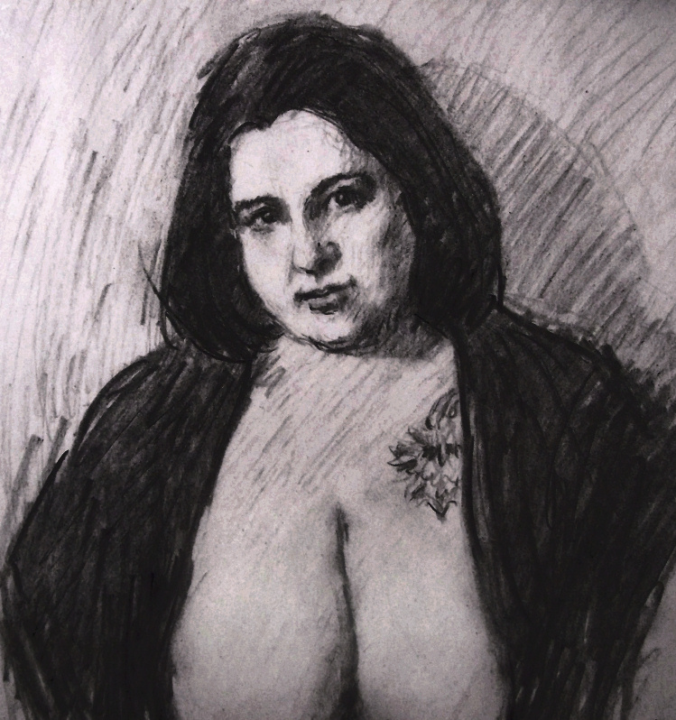 A charcoal drawing.